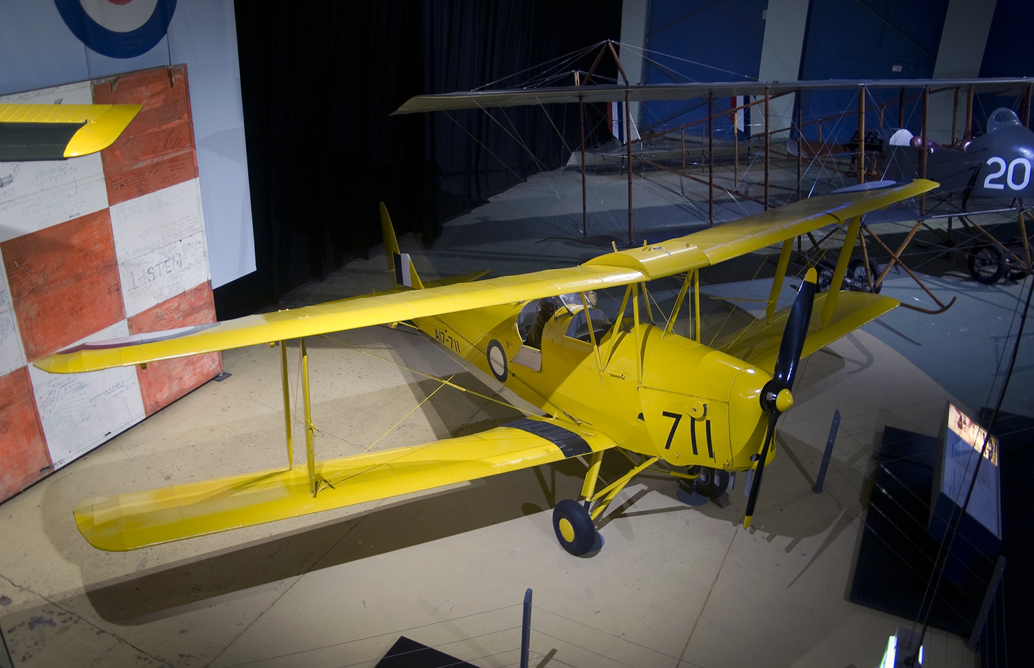 de Havilland Tiger Moth (A17-711) in the Training Hangar at the RAAF Museum, RAAF Williams Point Cook.